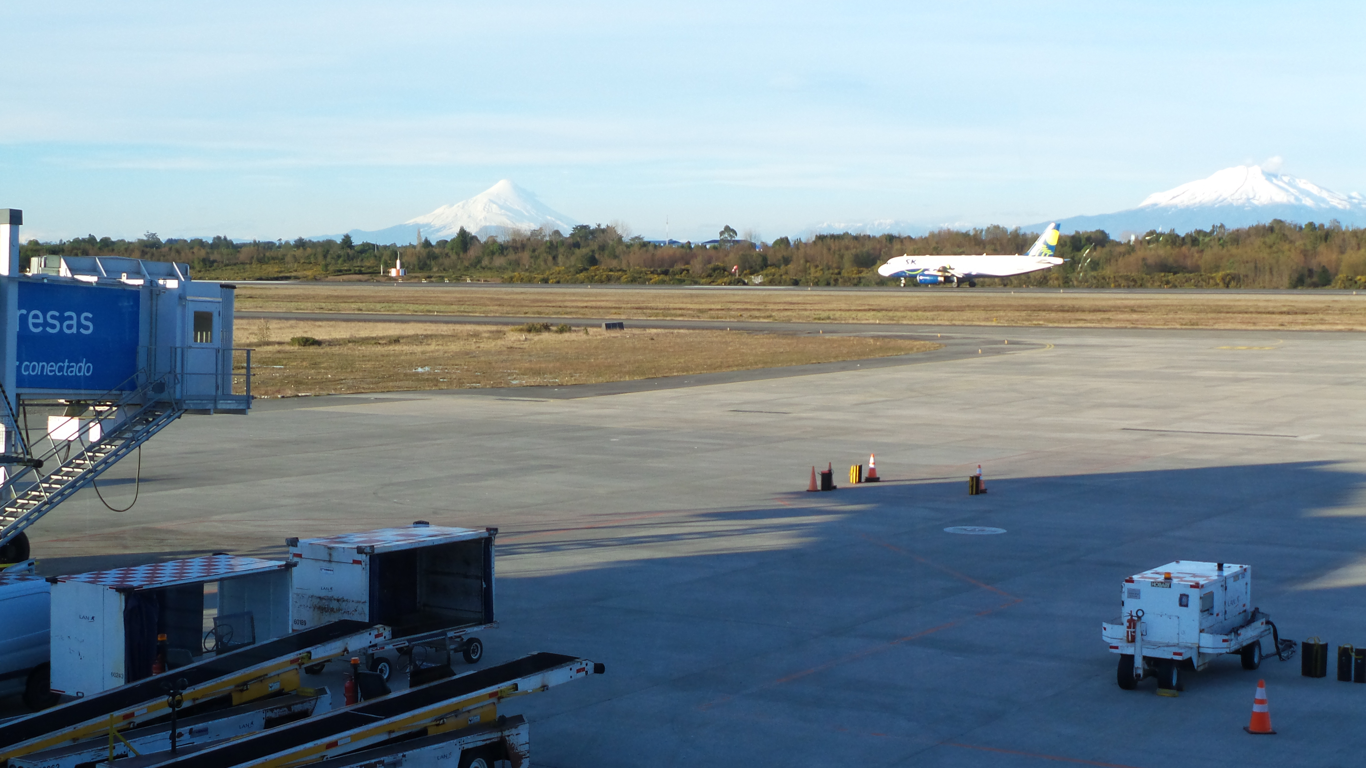 El Tepual International Airport, Puerto Montt, Chile, with Calbuco and Osorno volcanoes in the background.